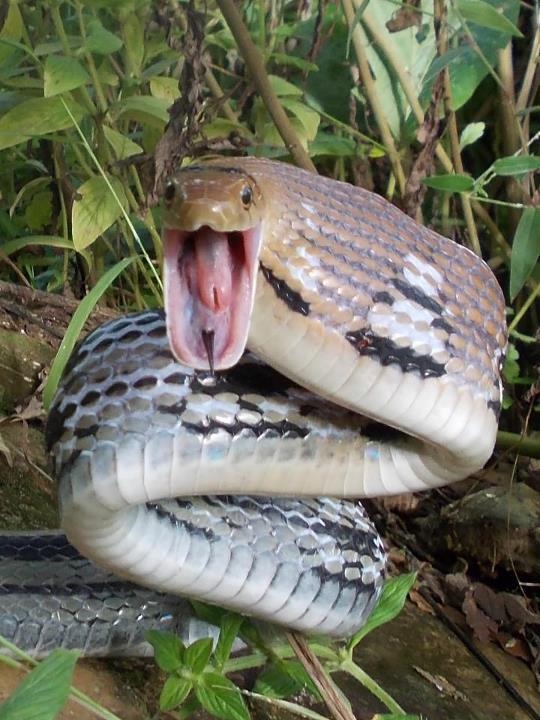 Coelognathus radiatus- Copper headed trinket snake- threat display